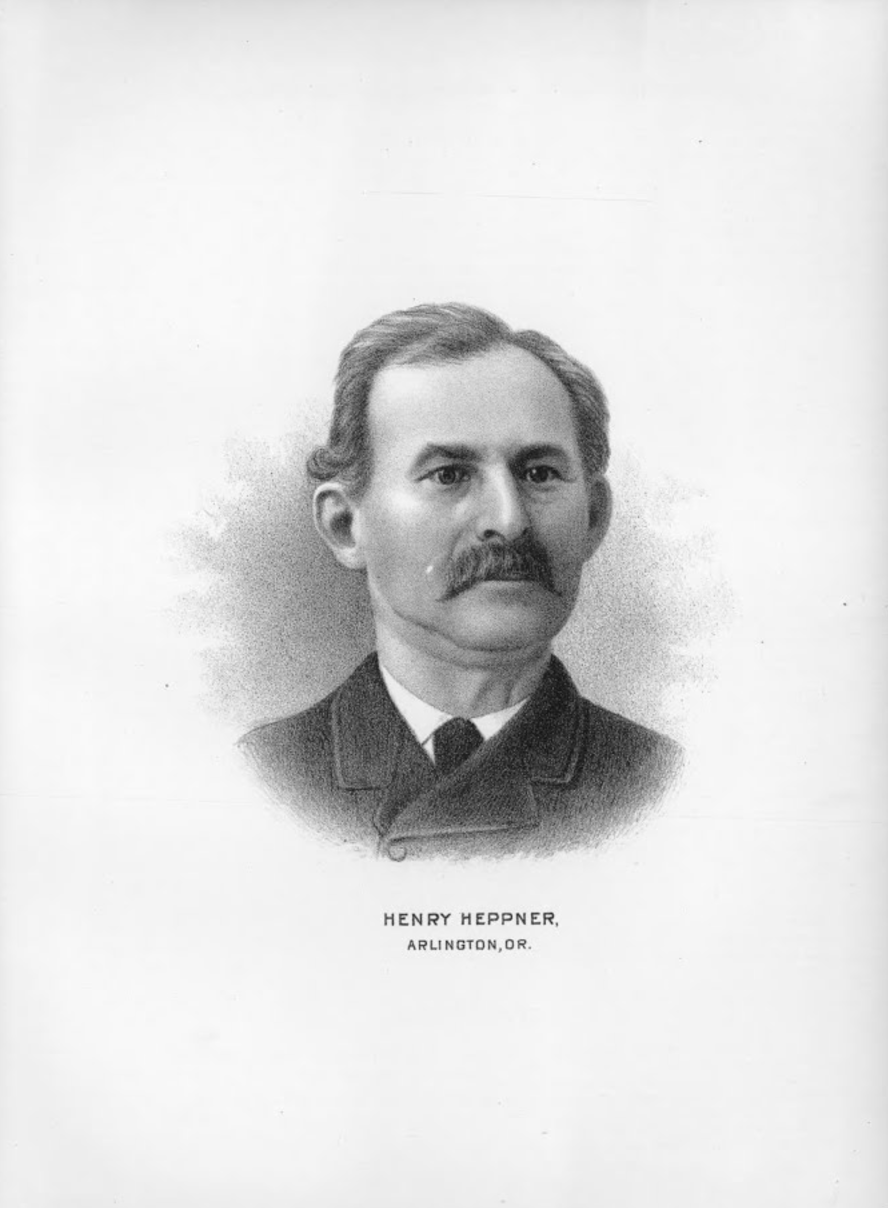 Henry Heppner. Listed as from Arlington, Oregon in 1889 Volume 2 of 2 publication "History of the Pacific Northwest: Oregon and Washington: Embracing an Account of the Original Discoveries on the Pacific Coast of North America, and a Description of the Conquest, Settlement and Subjugation of the Original Territory of Oregon; Also Interesting Biographies of the Earliest Settlers and More Prominent Men and Women of the Pacific Northwest, Including a Description of the Climate, Soil, Productions of Oregon and Washington."